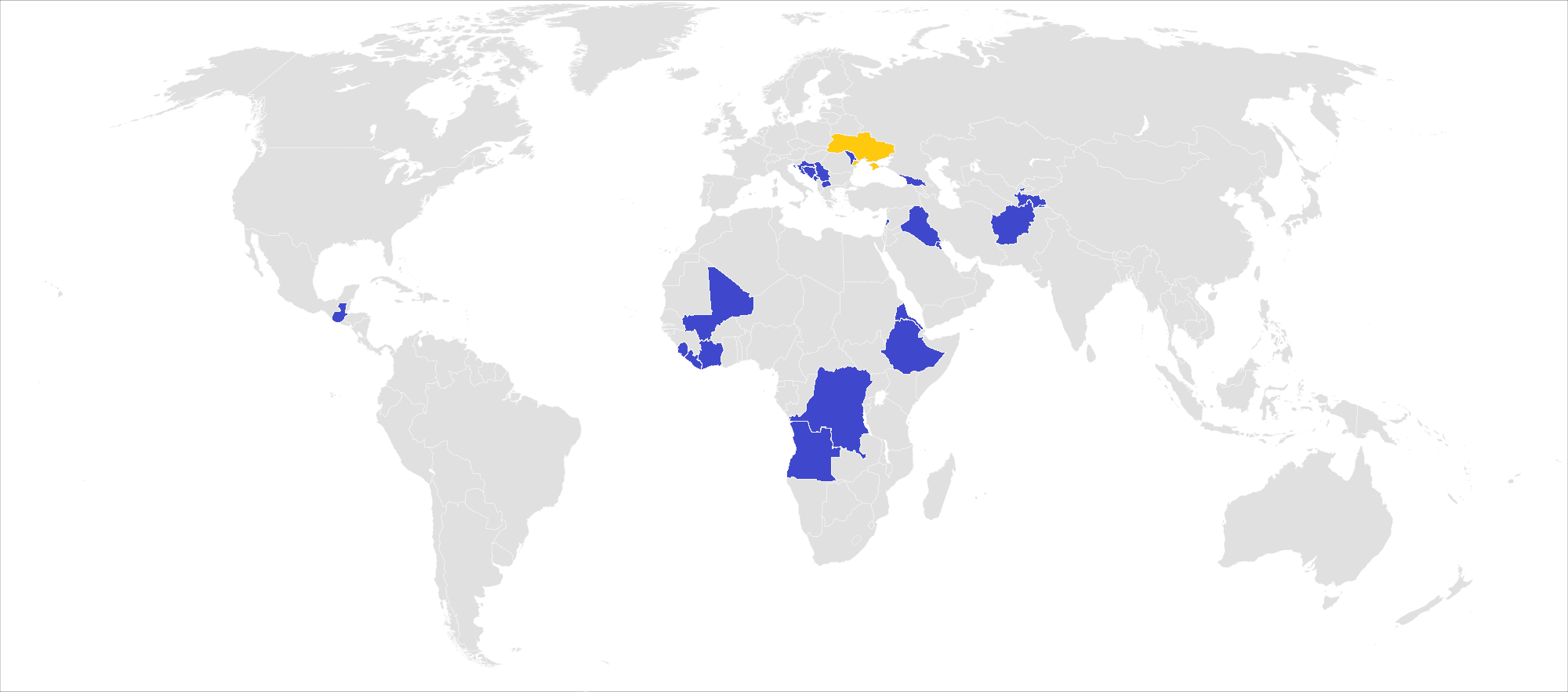 Миротворчі місії України